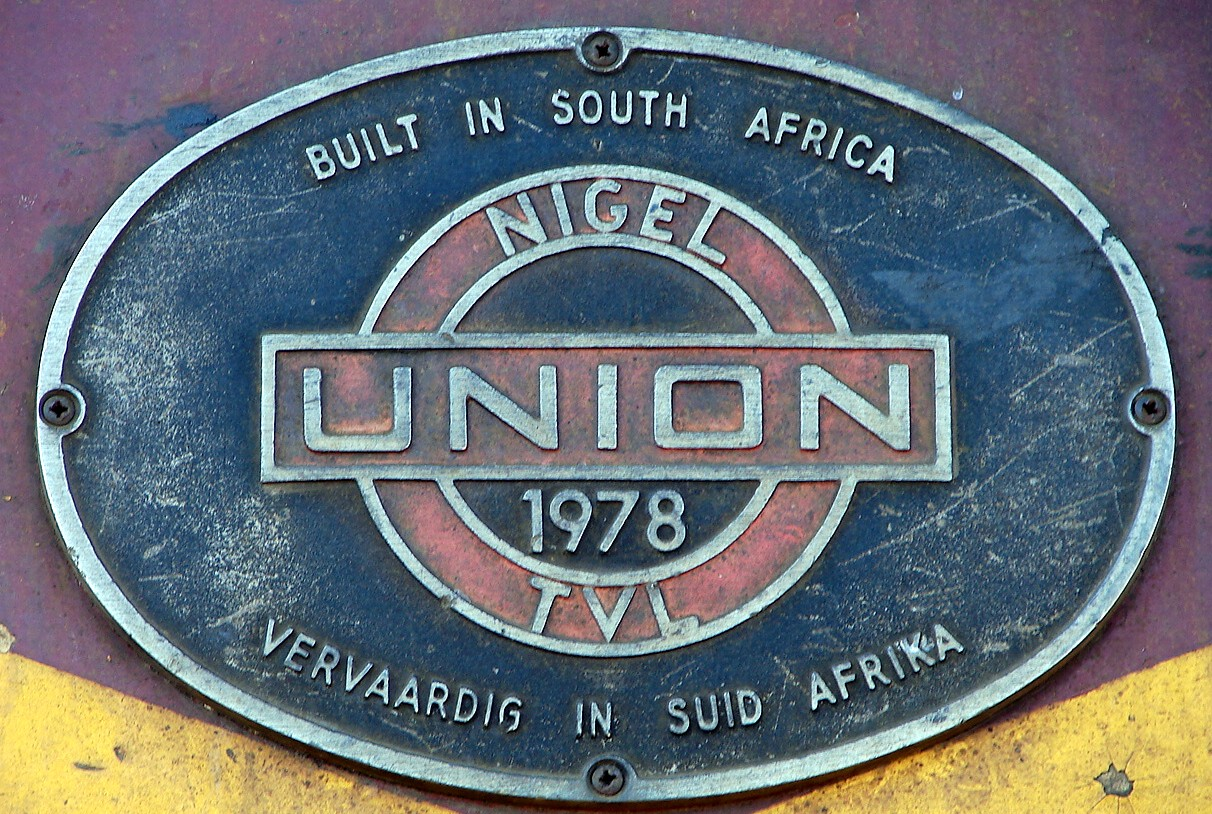 SAR Class 6E1 Series 7 E1862 builder's plate Location: Bellville Depot, Cape Town, Western Cape Rebuilding: In 2012 E1862 was withdrawn from service and rebuilt to Class 18E 18-692